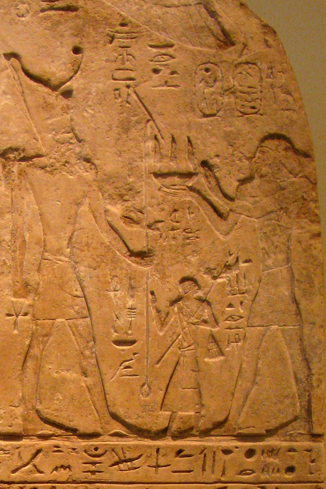 Pharaoh Shepsesre Tefnakht I's stone donation stela from Sais dedicated to the Egyptian goddess Neith now located at the National Archaeological Museum of Athens, Greece. This stela constitutes one of the most important documents for this Lower Egyptian Delta king who ruled during the Kushite period of Egypt in the Third Intermediate Period (c.8th century BCE) because it preserves a date within his important reign: his 8th Regnal year.